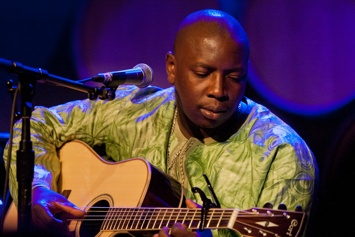 Vieux Farka Touré performing with the Touré-Raichel Collective in 2012 at New York's City Winery.